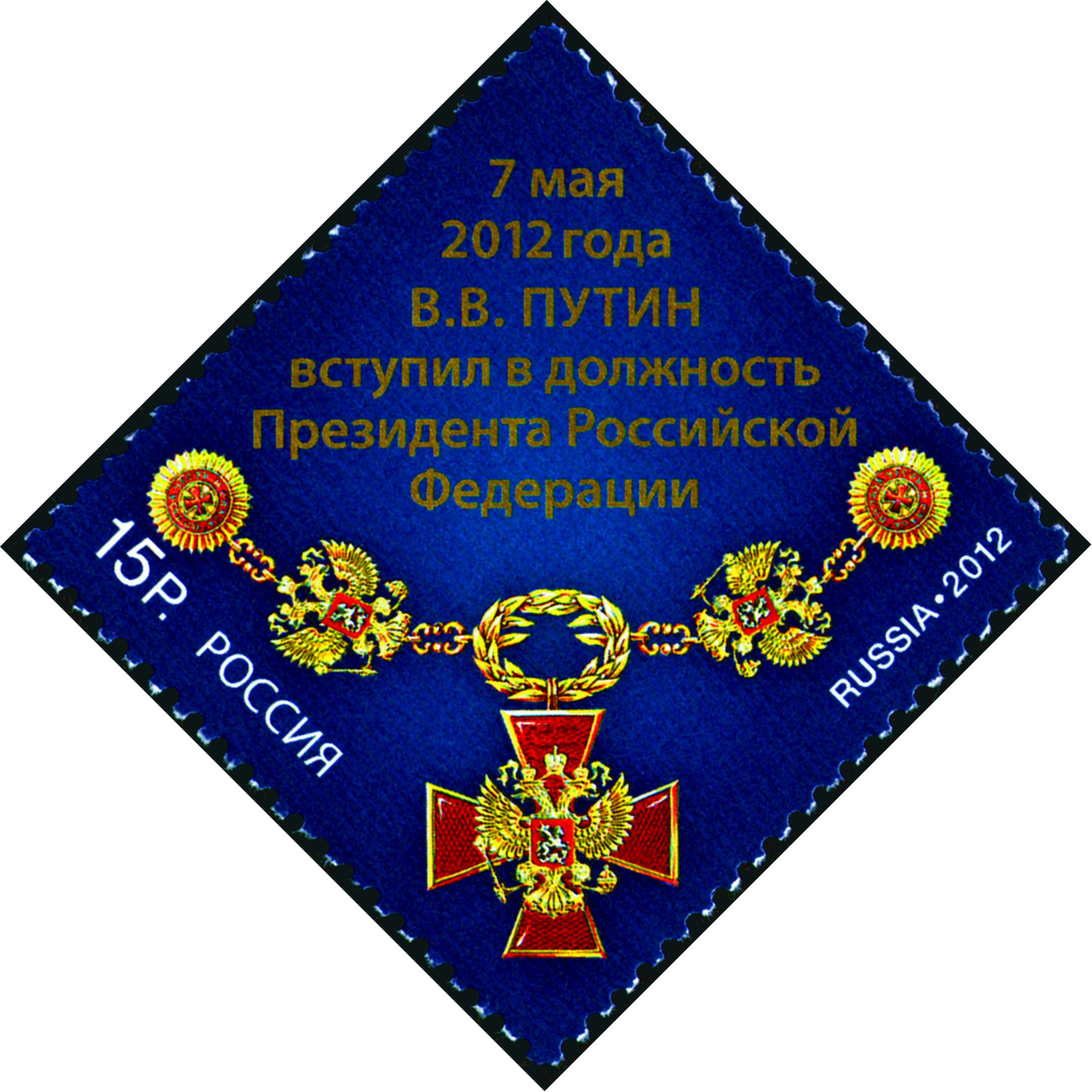 7 May 2012: the inauguration of 4th President of Russian Federation Vladimir Putin. The insignia of the President of Russian Federation; the text: “7 May 2012 V.V. Putin assumed the office of the President of Russian Federation”. The stamp of Russia, 15.00 Rubles, 7 May 2012, PTC Marka Catalogue No 1585, Michel No 1817. Coated paper. Offset printing, bronze paste, relief stamping. Perforation: comb 11½:11½. Size of the stamp: 37×37 mm. Print run: 630,400